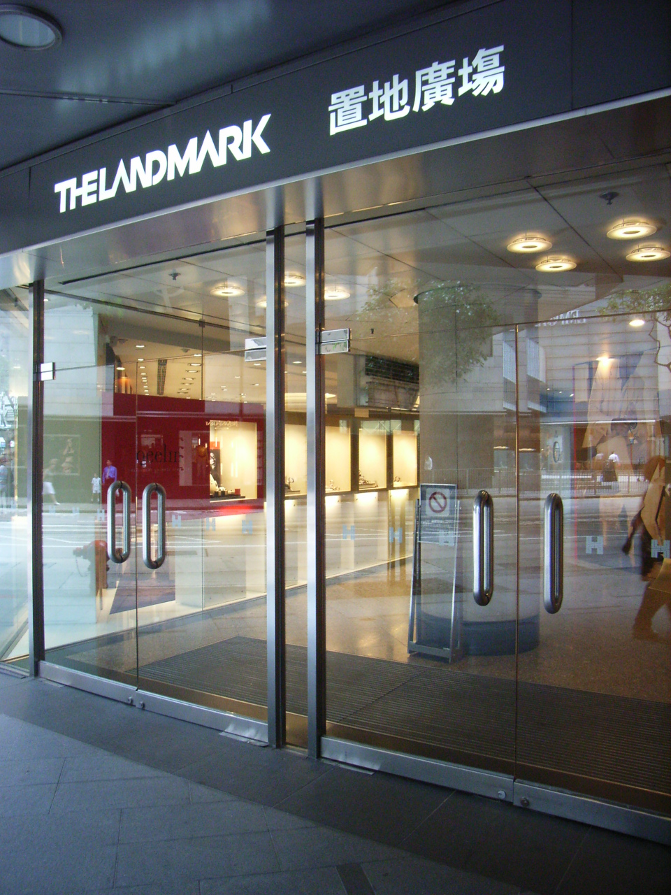 The Landmark, Central, Hong Kong by TangHon